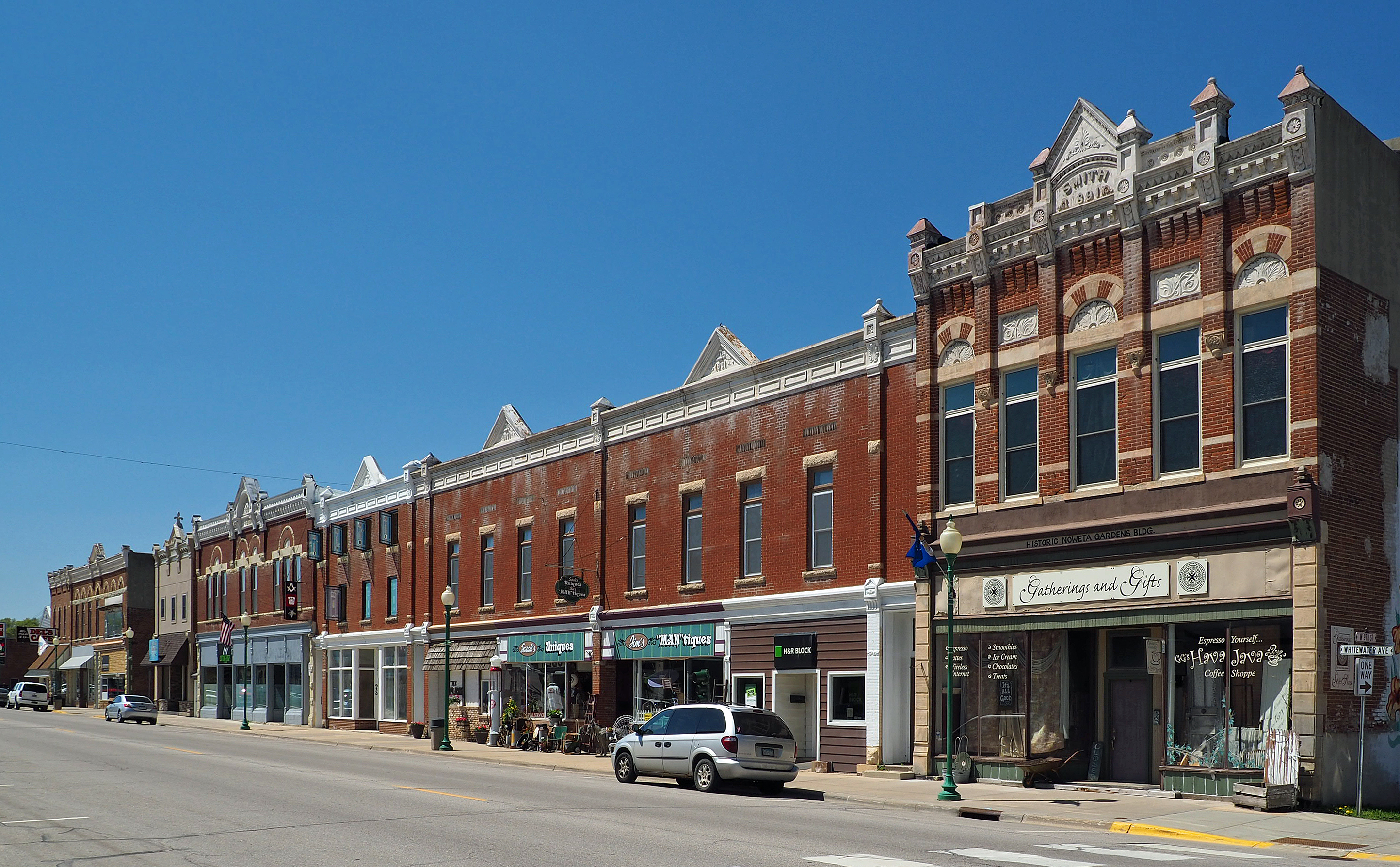 Whitewater Avenue Commercial Historic District, St Charles, Minnesota, USA. Viewed from the northeast corner of Whitewater and 9th St.